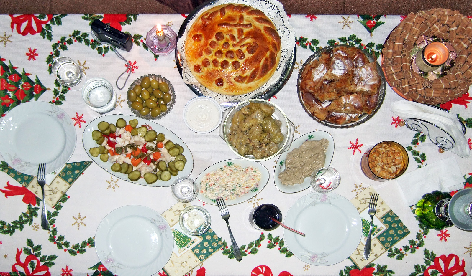 Bulgarian Christmas Eve dinner spread with pumpkin (tikvenik) banitsa, sarma, Russian salad and more.